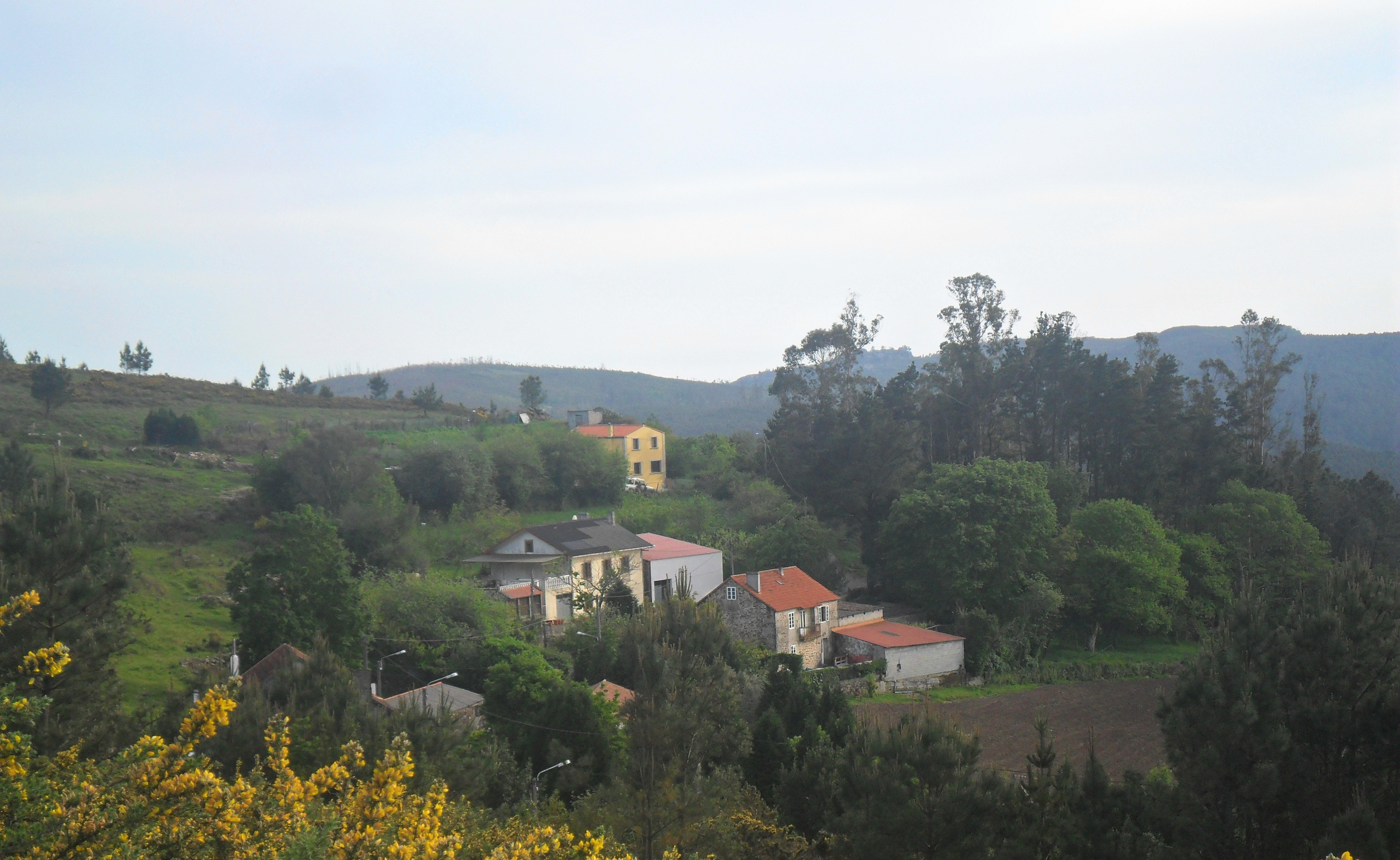 Afeosa Lousame